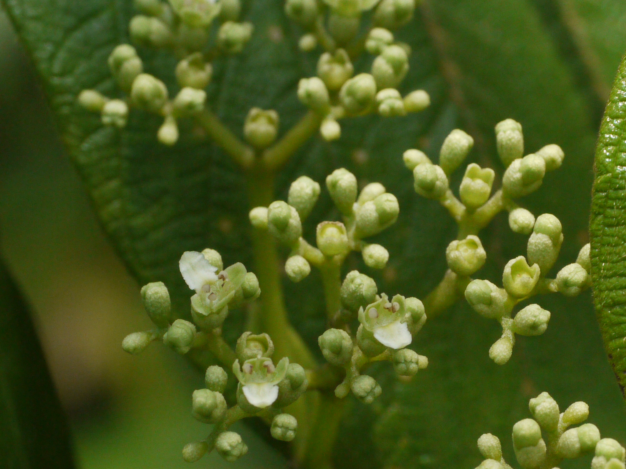 Verbenaceae (verbena, or vervain family) » Premna serratifolia L. PREM-na -- from the Greek premnon (stump of a tree), referring to the dwarf stature of one species ser-at-ih-FOH-lee-uh -- margins of foliage are toothed like a saw commonly known as: [/site/indiannamesofplants/via-names/english/headache-tree headache tree], [/site/indiannamesofplants/via-names/english/spinous-fire-brand-teak spinous fire brand teak] • Bengali: [/site/indiannamesofplants/via-names/bengali/ganiari ganiari] • Gujarati: [/site/indiannamesofplants/via-names/gujarati/moti-arani-moti-arani મોટી અરણી moti arani] • Hindi: [/site/indiannamesofplants/via-names/hindi/arani-arani अरणी arani] • Kannada: [/site/indiannamesofplants/via-names/kannada/agnimantha-agnimantha ಅಗ್ನಿಮನ್ಥ agnimantha] • Malayalam: [/site/indiannamesofplants/via-names/malayalam/appel appel] • Marathi: [/site/indiannamesofplants/via-names/marathi/arani-arani अरणि arani], [/site/indiannamesofplants/via-names/marathi/ranatakali-ranatakali रानटाकळी ranatakali] • Sanskrit: [/site/indiannamesofplants/via-names/sanskrit/agnimantha-agni-mantha अग्निमन्थ agni-mantha], [/site/indiannamesofplants/via-names/sanskrit/arani-arani अरणि arani] • Tamil: [/site/indiannamesofplants/via-names/tamil/pacumunnai-pacu-munnai பசுமுன்னை pacu-munnai], [/site/indiannamesofplants/via-names/tamil/munnai-munnai முன்னை munnai] • Telugu: [/site/indiannamesofplants/via-names/telugu/bhairavi-bhairavi భైరవి bhairavi] Native of: e & s tropical Africa, s China, e Asia, Bangladesh, India, Indo-China, Malesia, n Australia References: Flowers of India • NPGS / GRIN • ENVIS - FRLHT • DDSA